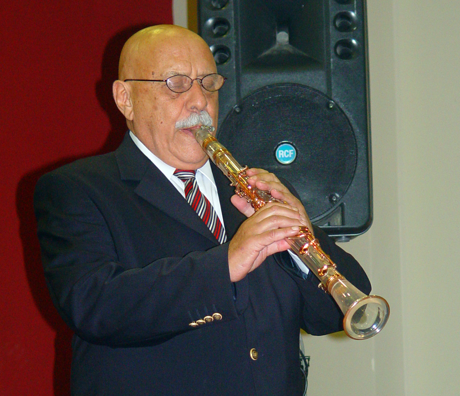 Giora Feidman plays a Buffet acrylic clarinet in Jerusalem